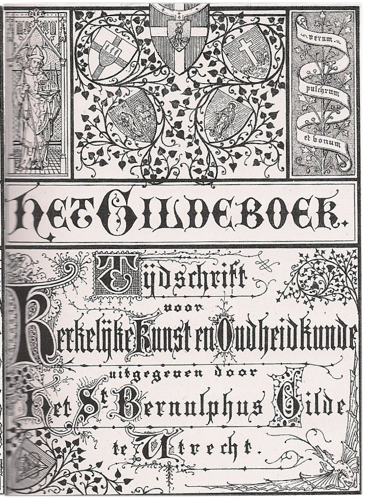 Guild Book of Saint-Bernulphus Guild